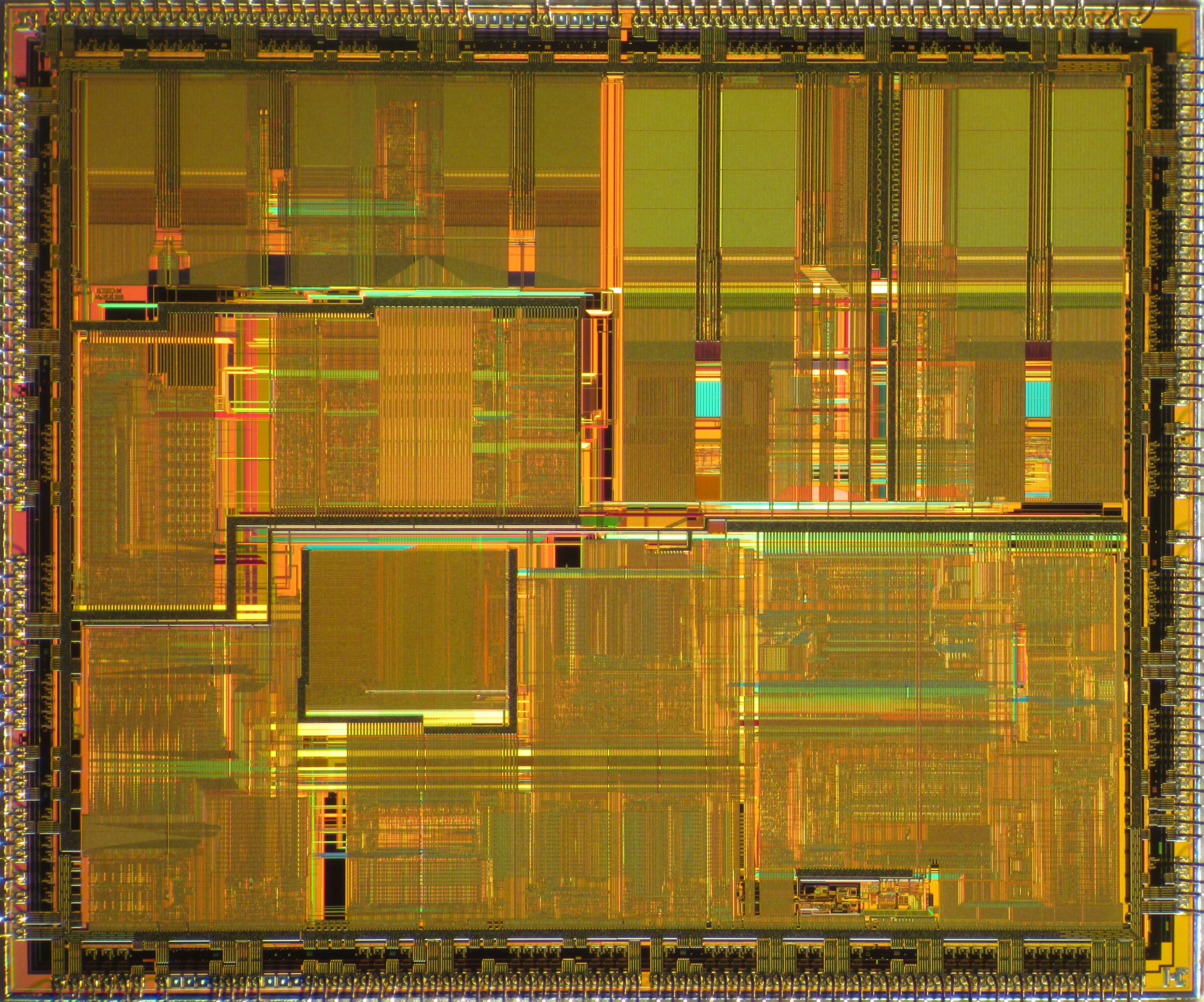 Die shot of Intel 80960HD microprocessor (A80960HD66, B stepping).